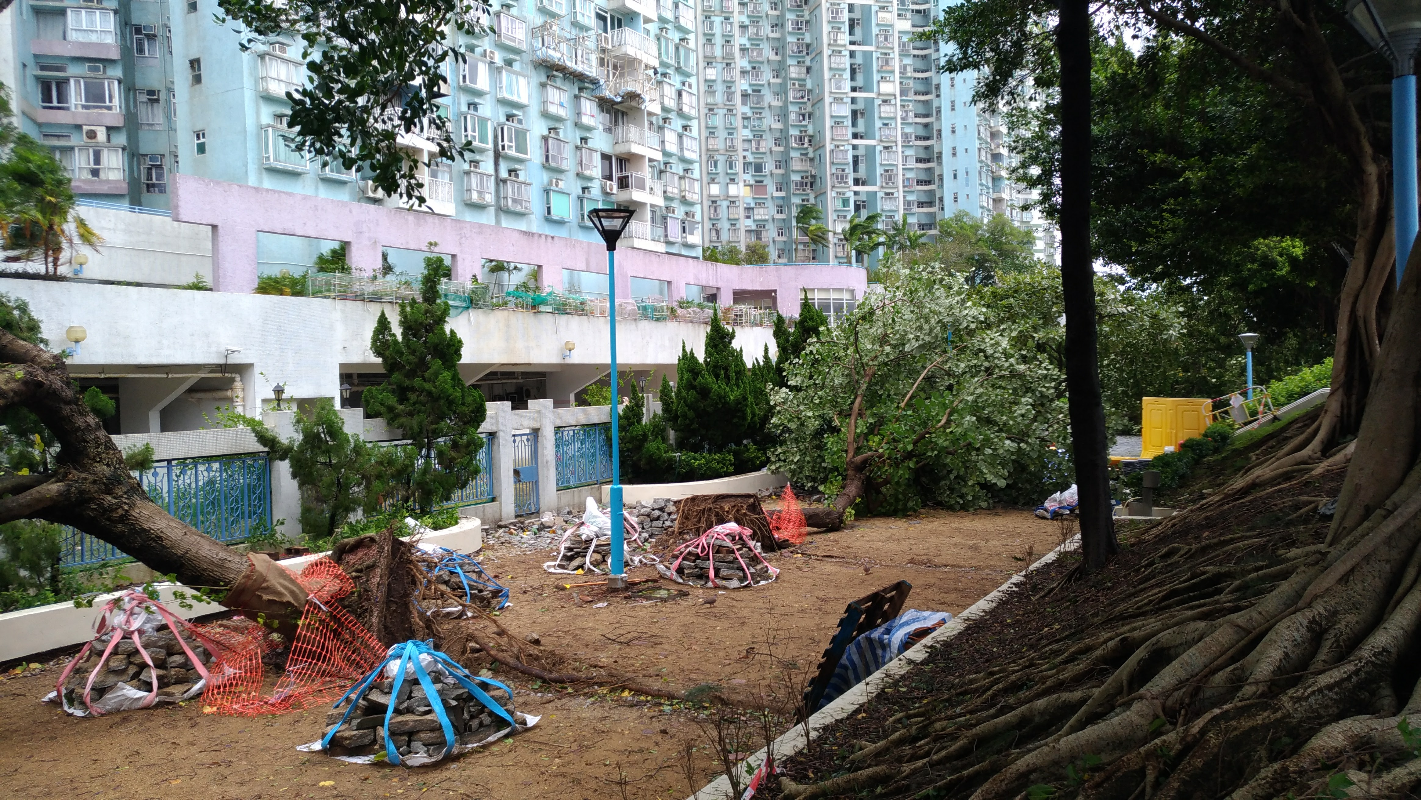 Tuen Mun Ferry Pier, after the Typhoon Hato.